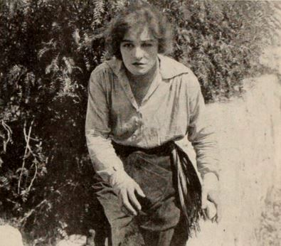 Still from the American drama film The Bird of Prey (1918) with Gladys Brockwell, on page 25 of the August 31, 1918 Exhibitors Herald.